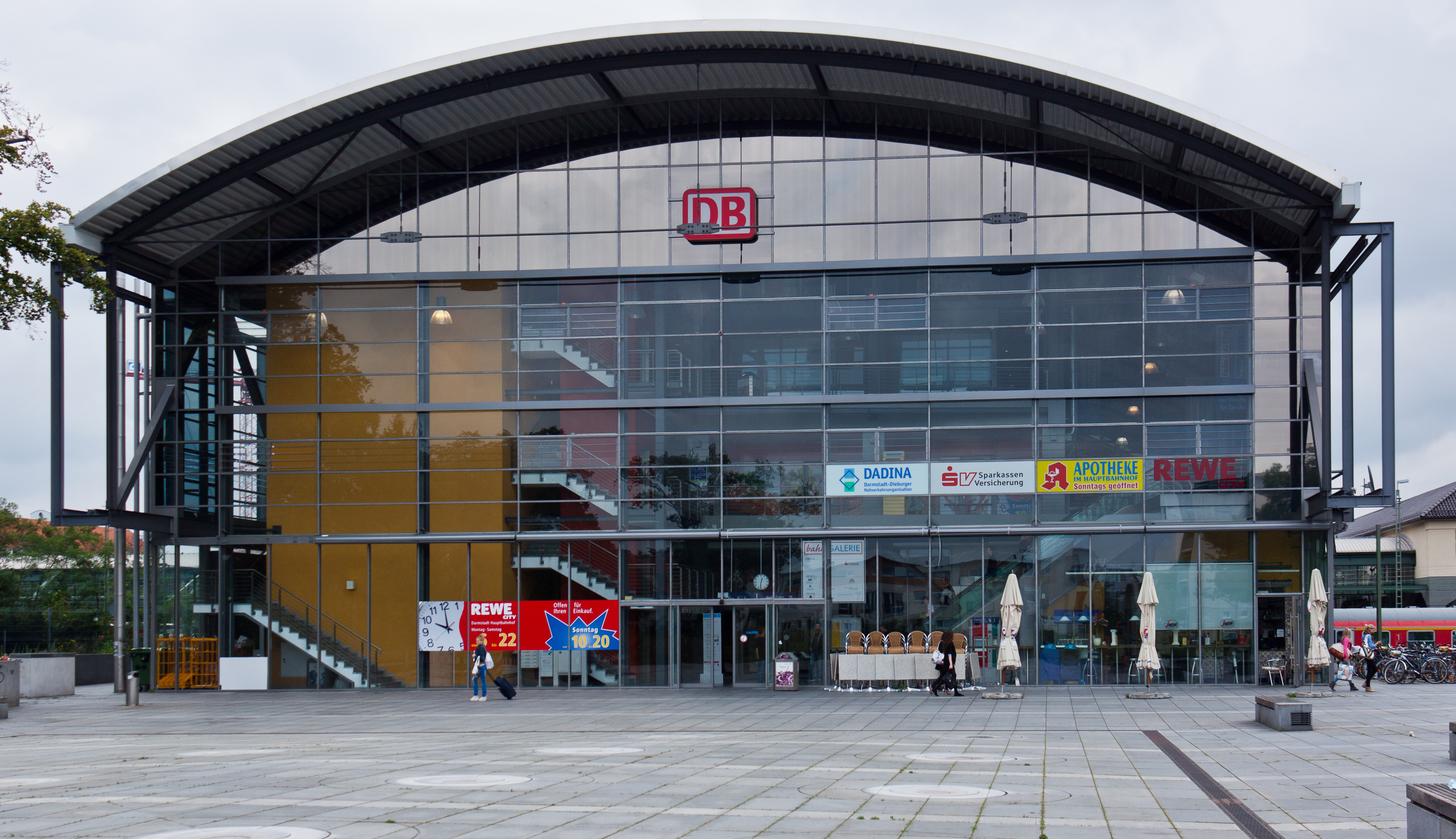 Western view onto the main train station of Darmstadt, Germany